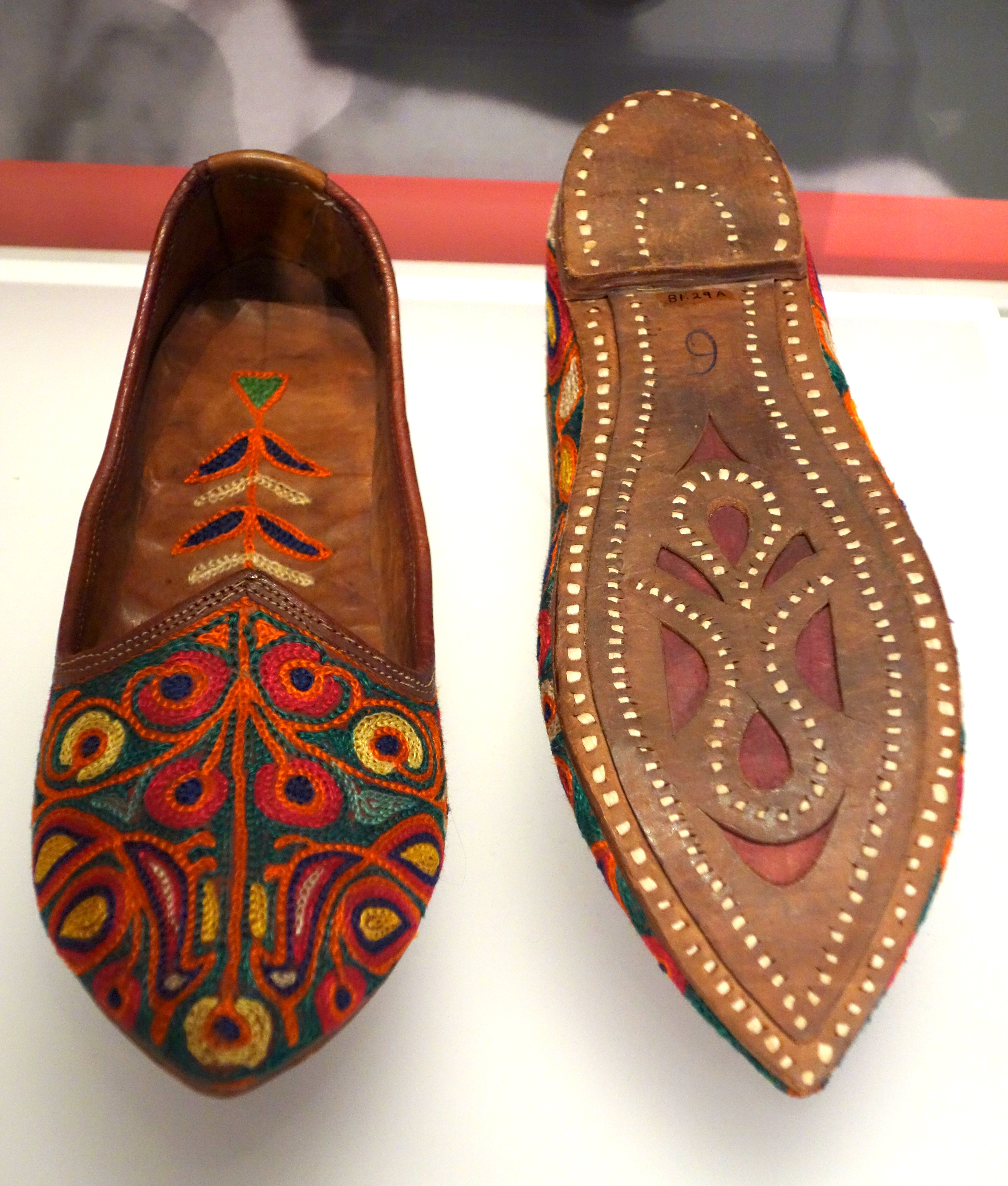 Exhibit in the Bata Shoe Museum, Toronto, Ontario, Canada. The museum permitted photography without restriction.